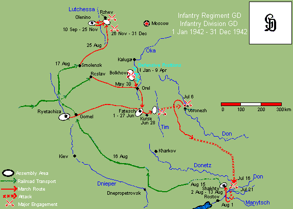 author and webmaster of